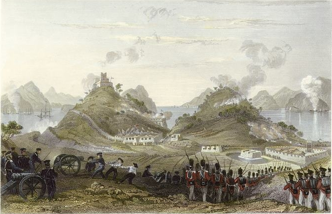 Attack and capture of Chuenpee, near Canton.